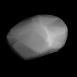 3D convex shape model of 1277 Dolores, computed using light curve inversion techniques. J. Hanuš, J. Ďurech, M. Brož, B. D. Warner (June 2011). "A study of asteroid pole-latitude distribution based on an extended set of shape models derived by the lightcurve inversion method". Astronomy and Astrophysics 530: A134. ISSN 0004-6361. arXiv